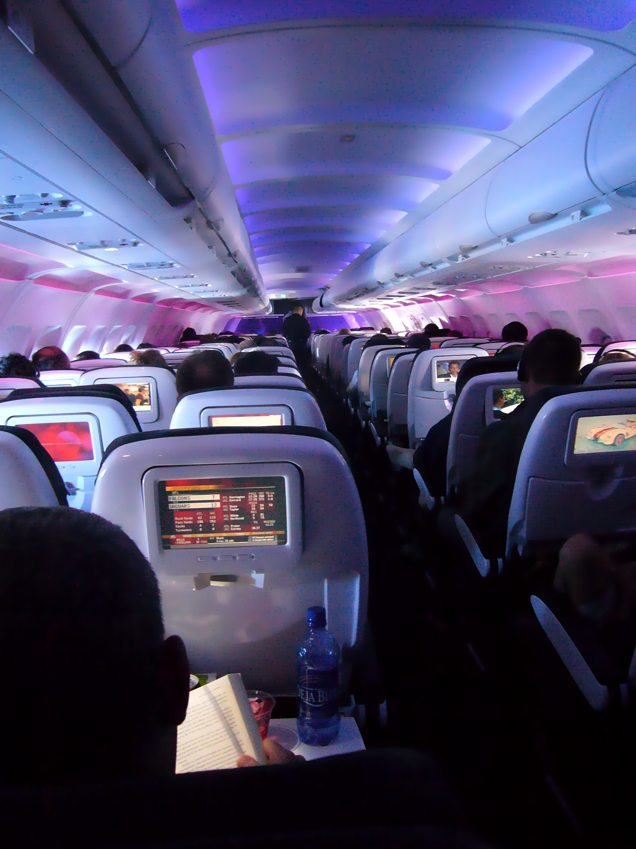 interior of an airplane